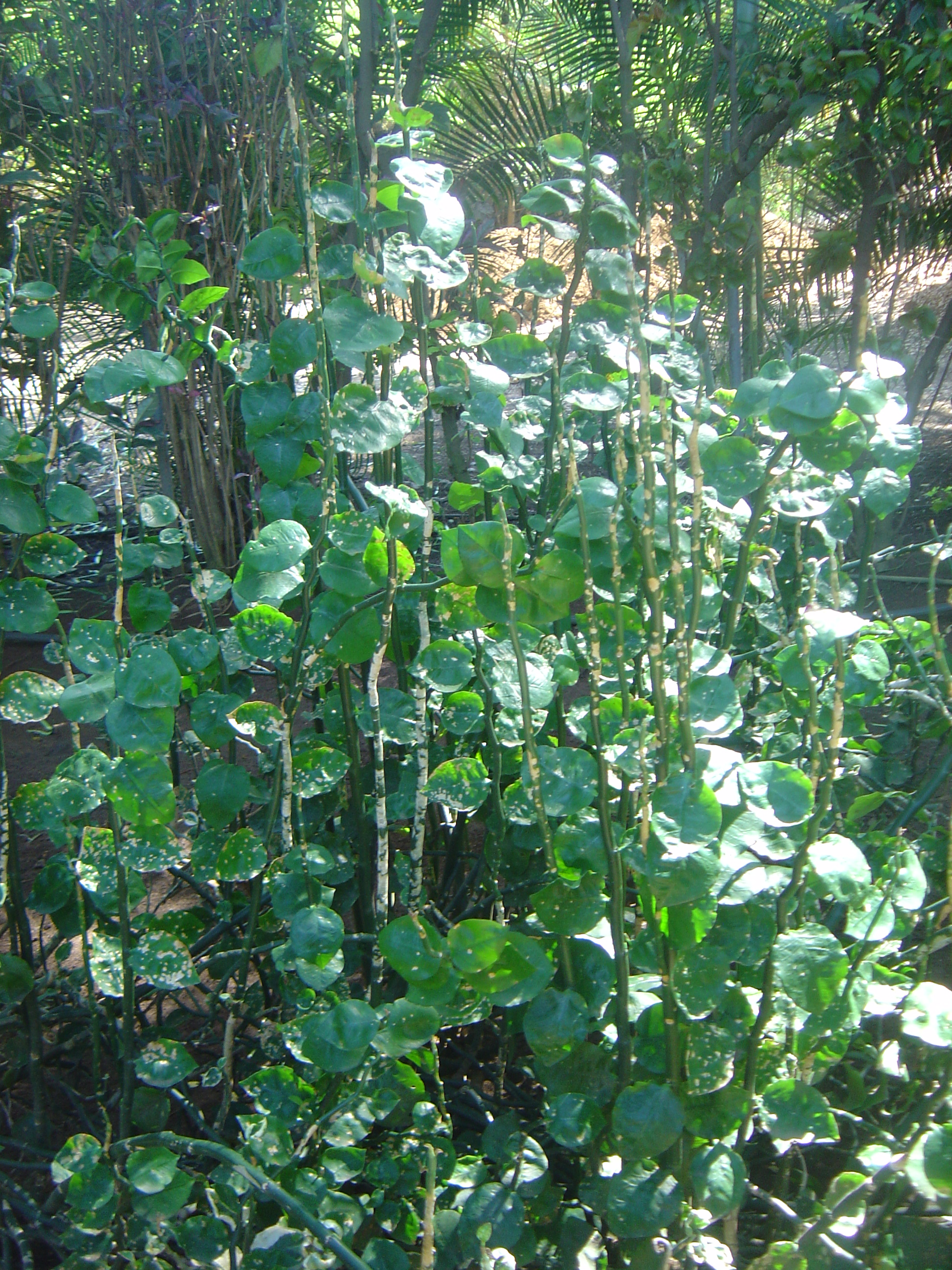 Photograph taken at the Jardin d'Éden botanical park, Saint-Gilles les Bains (commune of Saint-Paul), Réunion Island (Indian Ocean, a part of the French Republic).